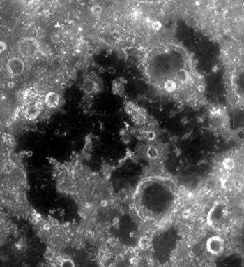 Mare Undarum, meaning the "sea of waves", is located just north of Mare Spumans on the near side. It is one of the many elevated lakes contained in the Crisium basin, surrounding Mare Crisium. The surrounding basin material is of the Nectarian epoch, while the mare basalt being of the Upper Imbrian epoch. A part of Mare Spumans can be seen at the bottom of the photo. The crater Dubyago can be seen on the southern edge of the mare. On the northeastern edge of the mare is the crater Condorcet P.